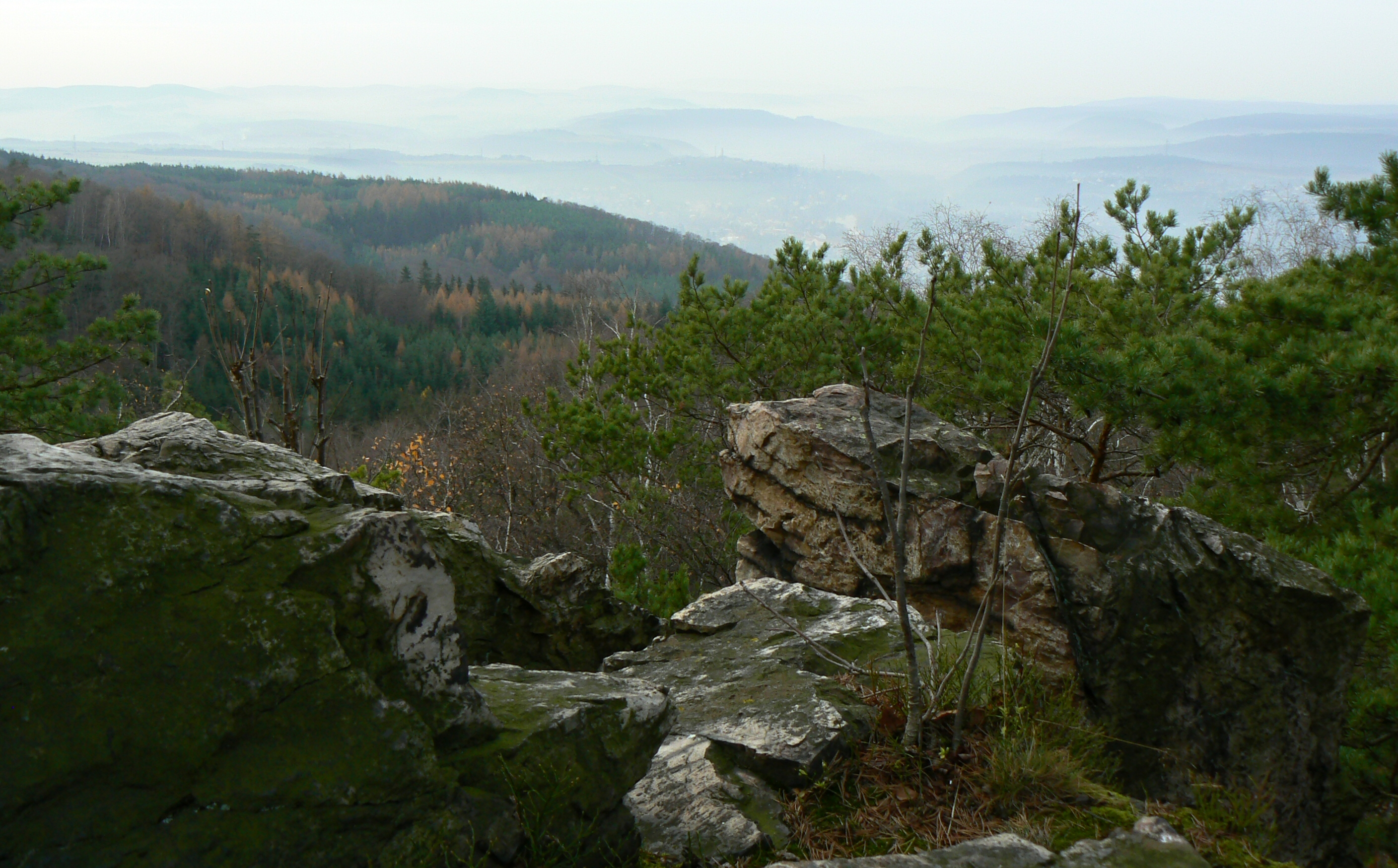 View point Hvíždinec, nature park Brdy-Hřebeny